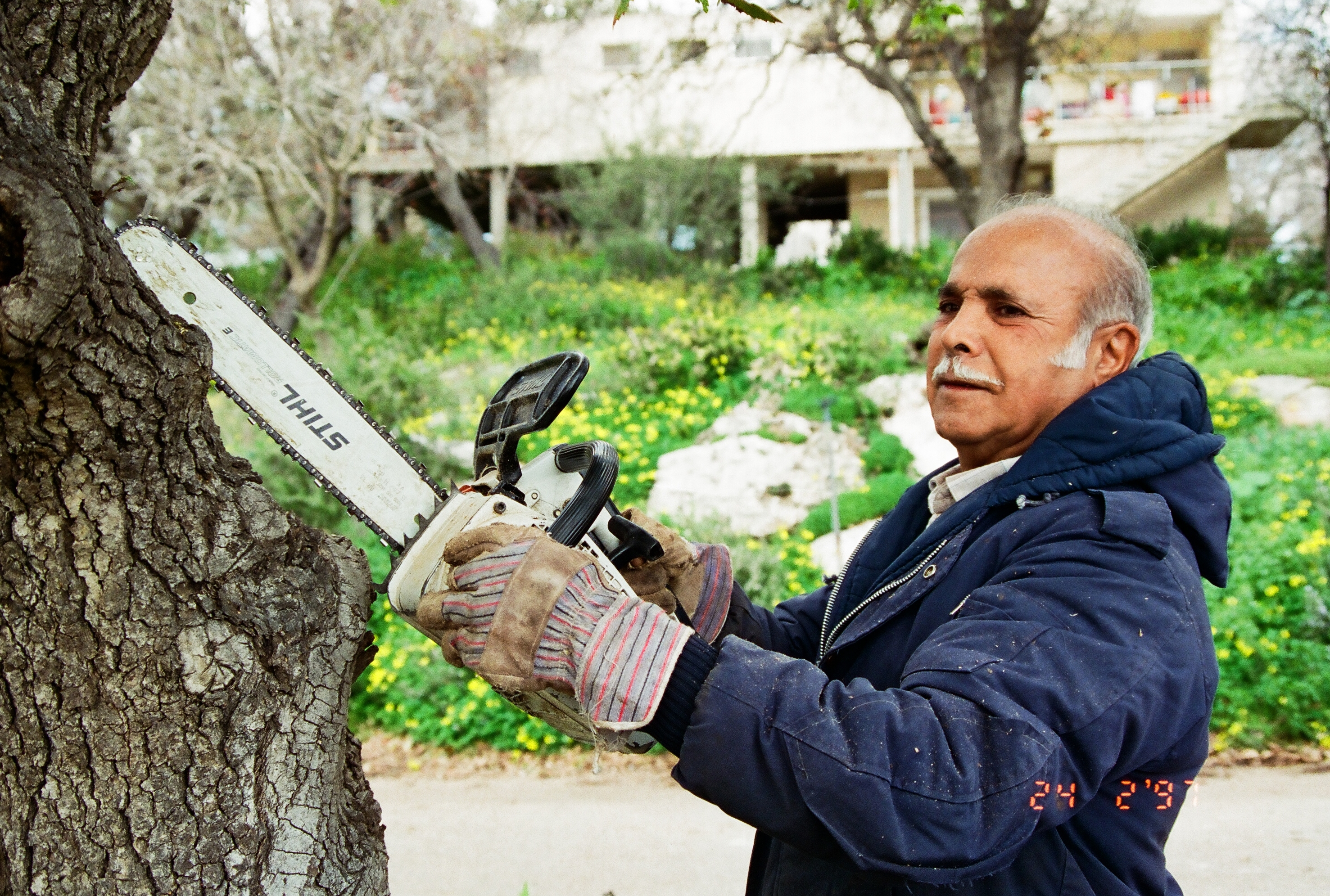 A Mossad agent, appearing in TV documentary The Spy Machine